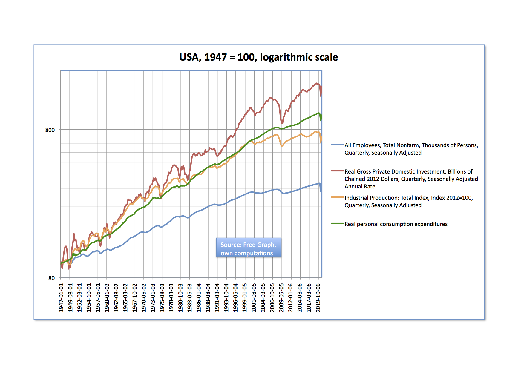 Long series of economic data from the US, logarithmic scale, source of data